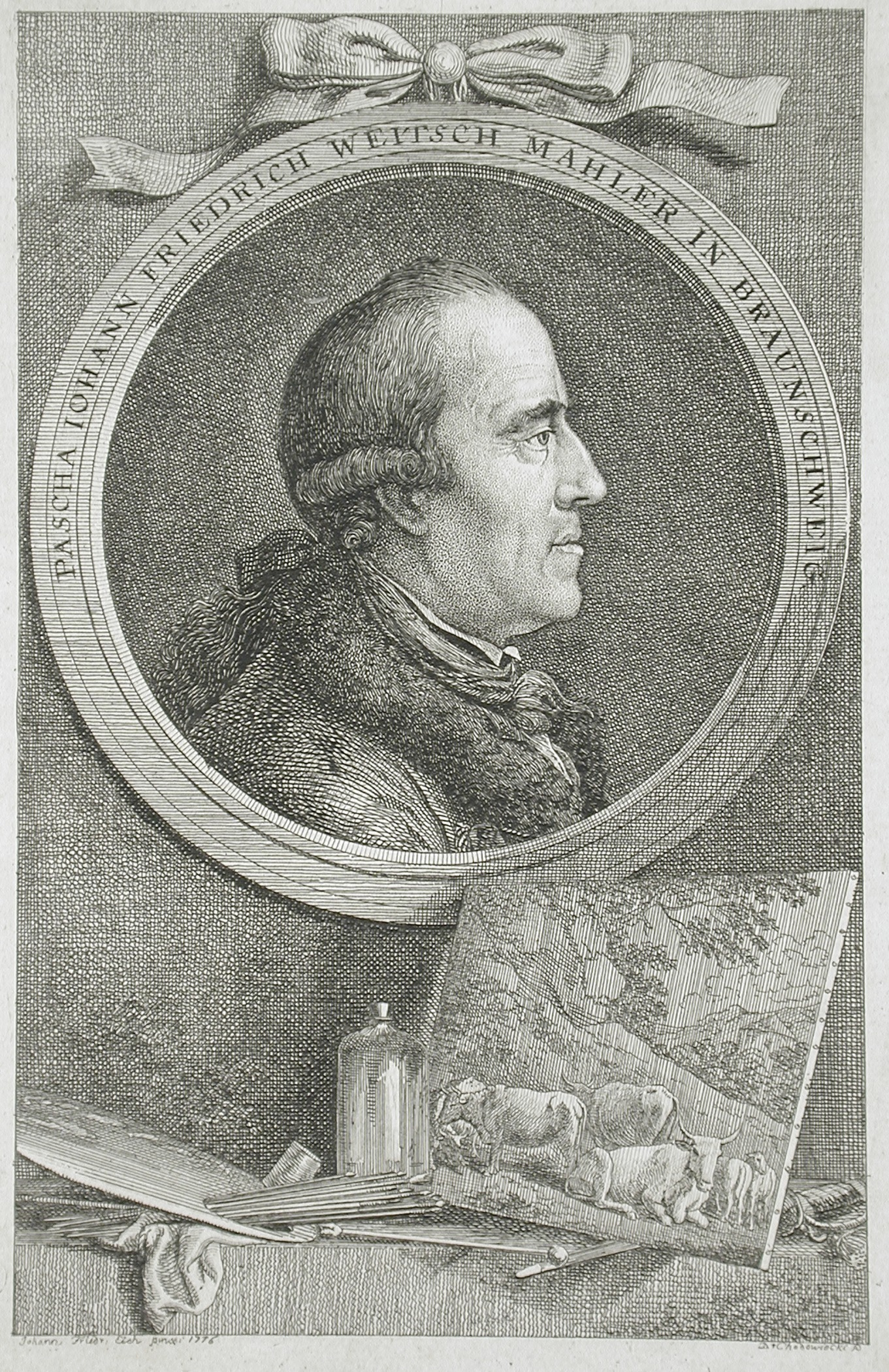 Germany, 1776 Prints; etchings Etching, chine collé Gift of Mr. and Mrs. Stanley Talpis (55.102.427) Prints and Drawings